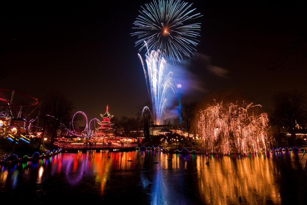 Fireworks over Copenhagen the night after New Year's Eve